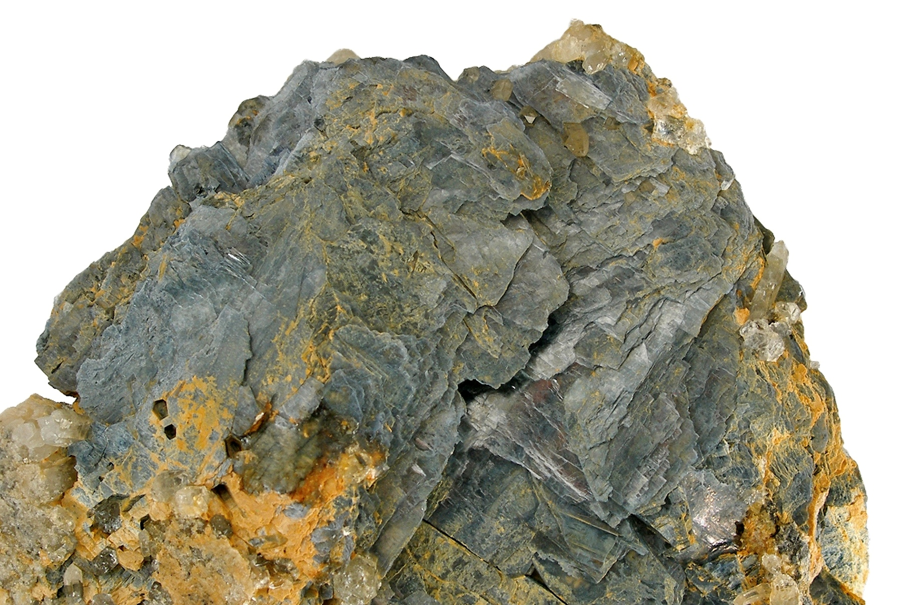 Baricite Locality: Rapid Creek, Dawson Mining District, Yukon Territory, Canada (Locality at ) This is a very rich specimen of this rare phosphate, only seldom seen even at these rich phosphate localities in the remote Yukon. The specimen features lustrous, metallic crystals of a slightly blue-gray color , arranged in plates one atop the other. It is a very rich, extremely showy example of this species. The phosphate deposits of the Yukon are one of the world's great sources of a suite of rare phosphate species, and the Ordway collection was known for them over the years. Self-collected by Al Ordway in the 1970s. It was long in his display collection and comes with a custom label to that effect. 7.1 x 6.6 x 2.3 cm